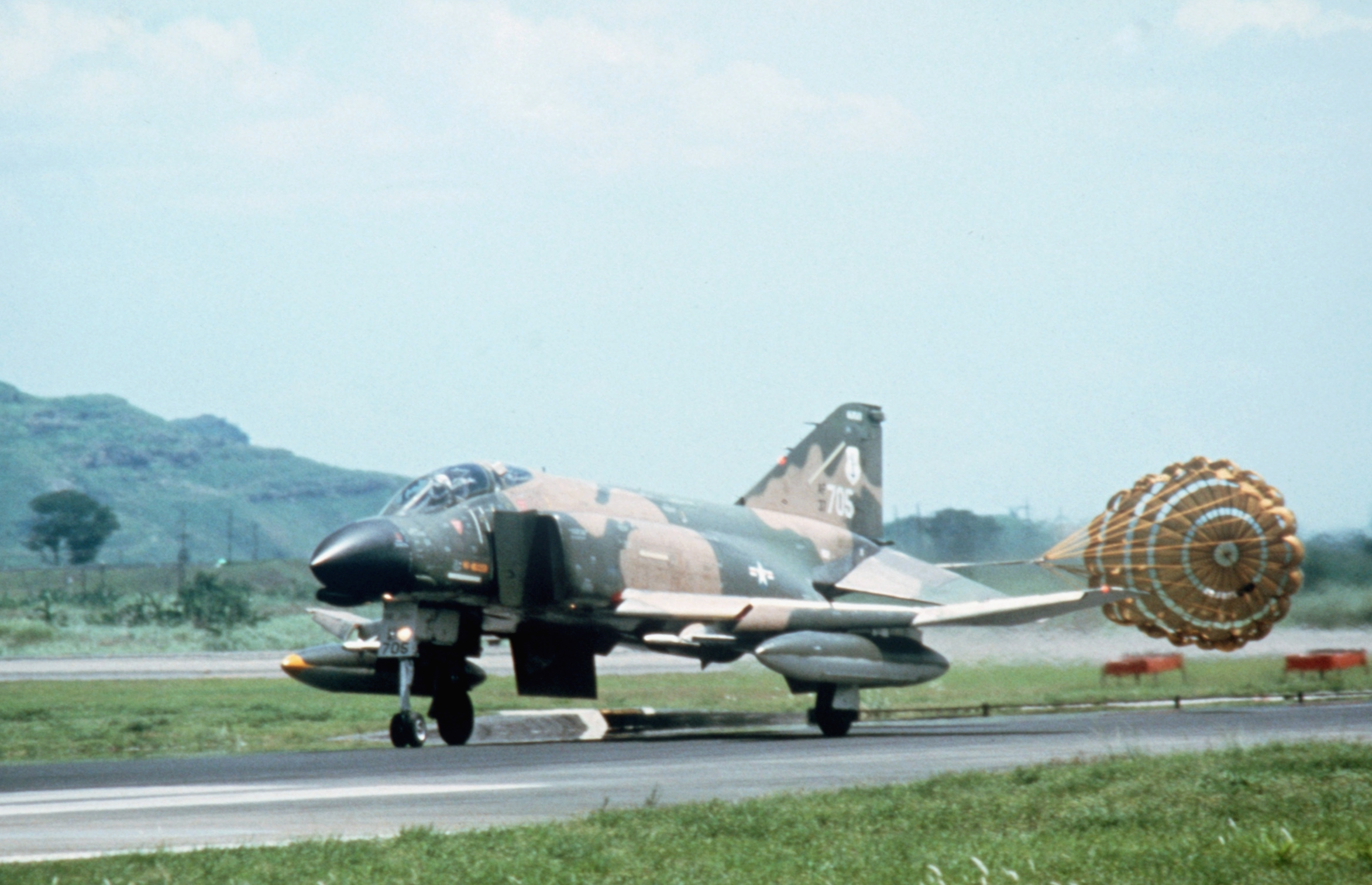 A U.S. Air Force McDonnell Douglas F-4C-21-MC Phantom II (s/n 63-7705) from the 199th Tactical Fighter Squadron, Hawaii Air National Guard, deploys a drogue chute during a landing at Clark Air Base, Philippines, on 1 June 1979.